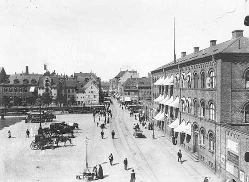 Christianshavns Torv with the Women's Prison to the right in Copenhagen, Denmark